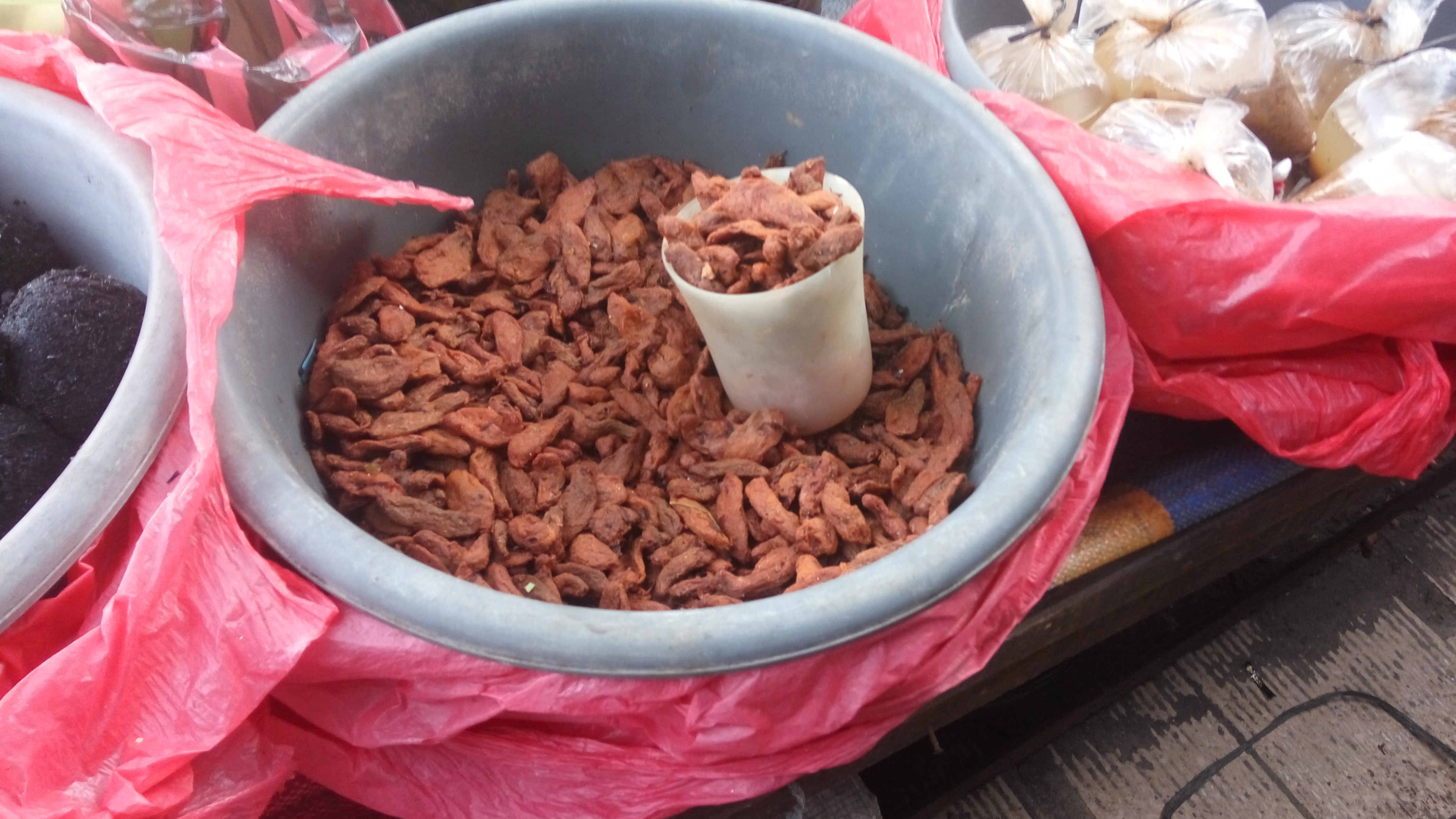 Asam Sunti, dried and salted Averrhoa bilimbi. Used as seasoning in Acehnese cuisines